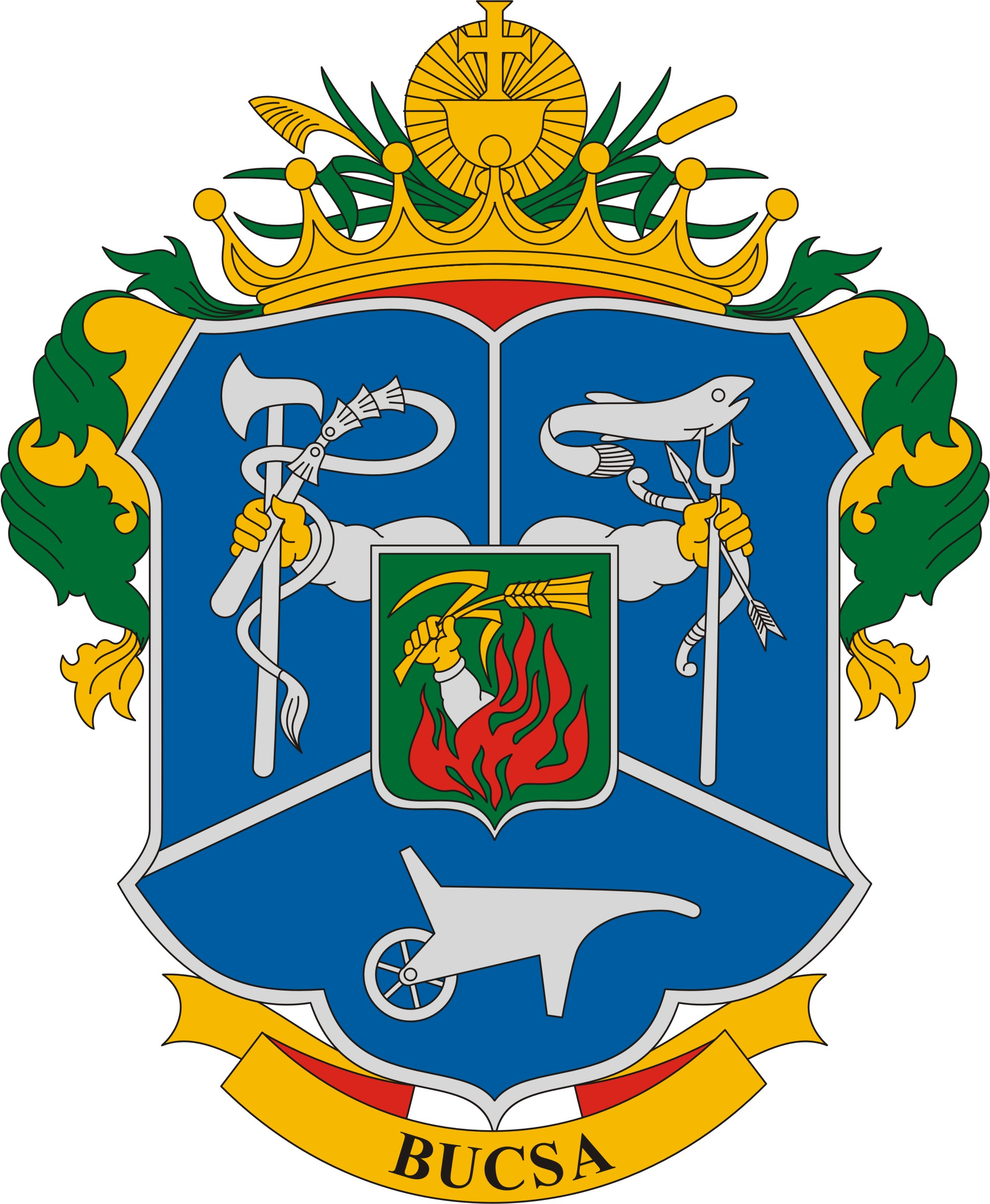 Coat of arms of Bucsa, Hungary